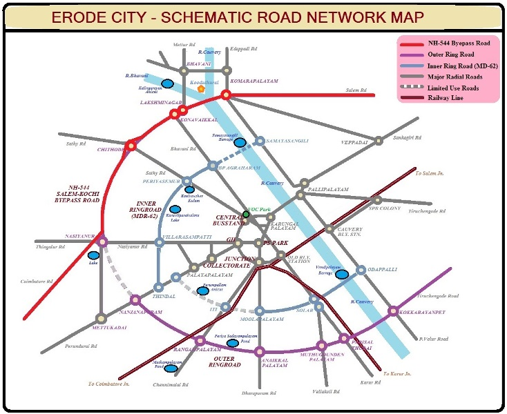 This image explains the road network in and around the city of Erode. This can be useful in identifying the routes.This map has clearly depicted the National Highways, Radial roads, Ring Roads and internal links along with limited use/lane restricted roads.